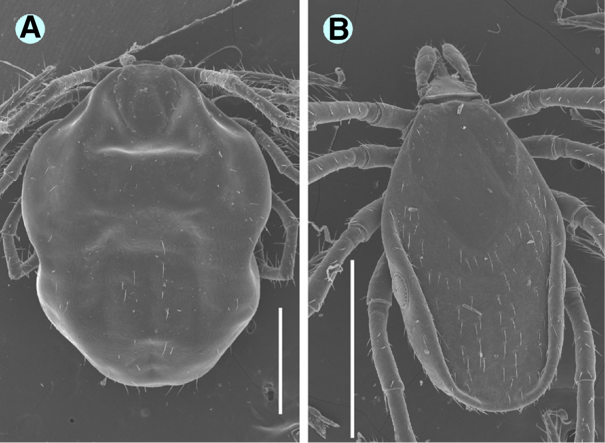 Scanning electron microscopy (SEM) pictures of engorged I. ariadnae sp. nov. nymph (A) and unfed I. vespertilionis nymph (B) (bars: 1 mm).